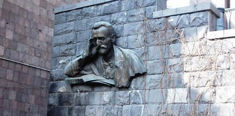 Hovhannes Tumanyan's museum wall in Yerevan